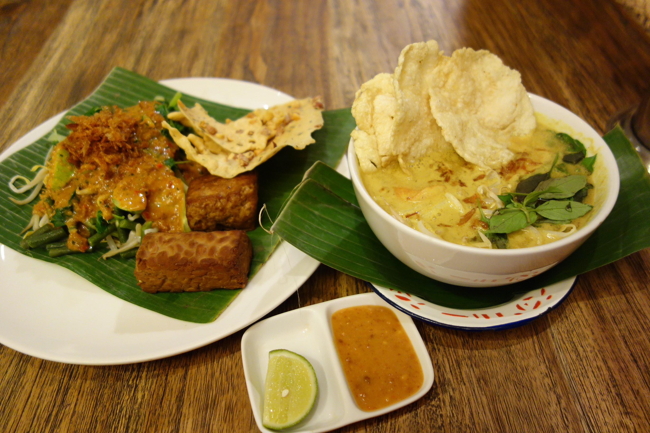 Traditional Javanese dishes: chicken noodles (laksha ayam, right) and vegetable salad with peanut sause (pecel) in a cafe in Jakarta